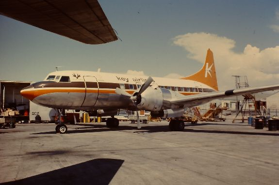 Manufacturer: Convair Designation: CV-440 Airline: Key Airlines Serial Number: N29KA